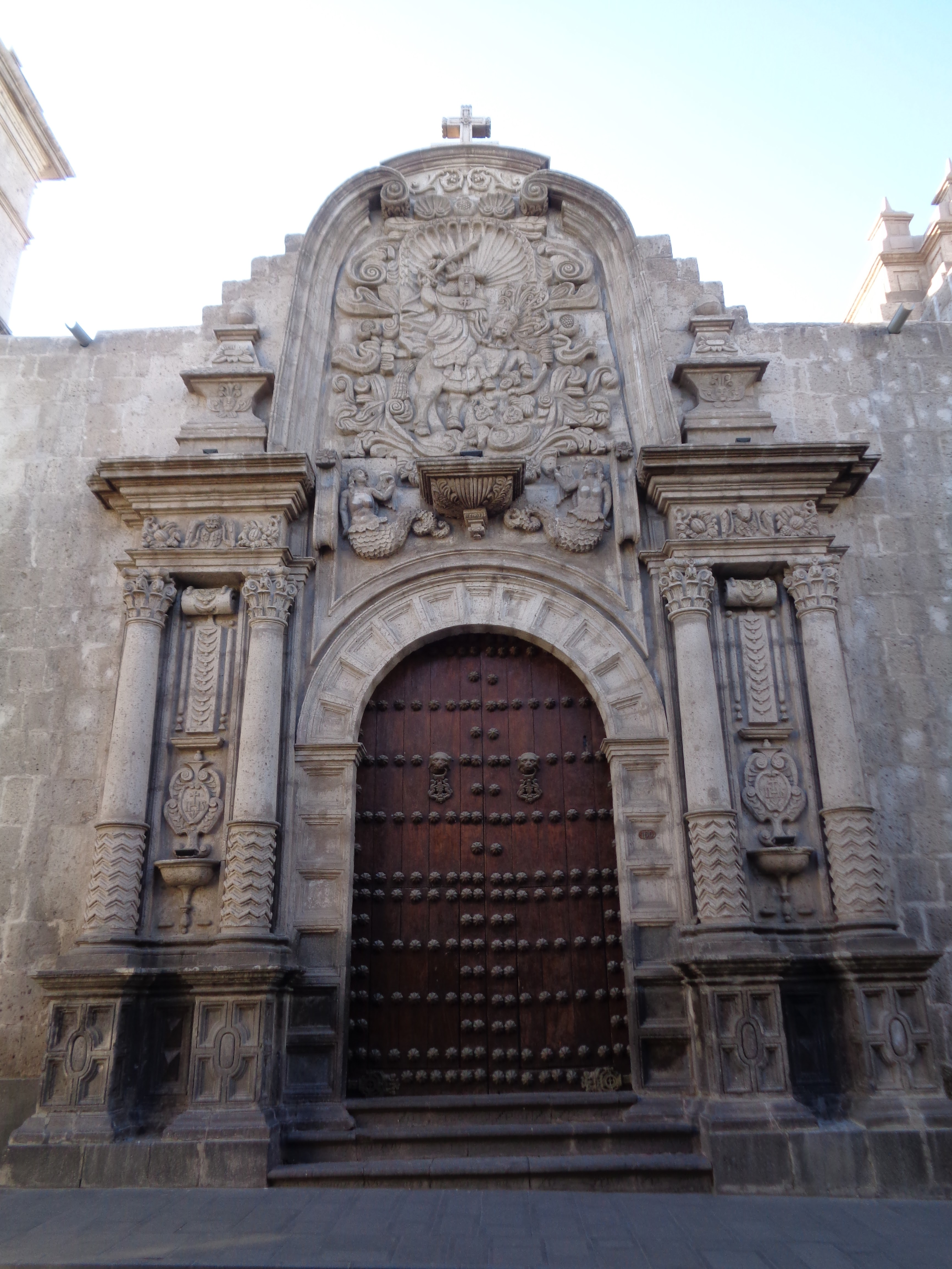 Home side of the church of the Society of Arequipa